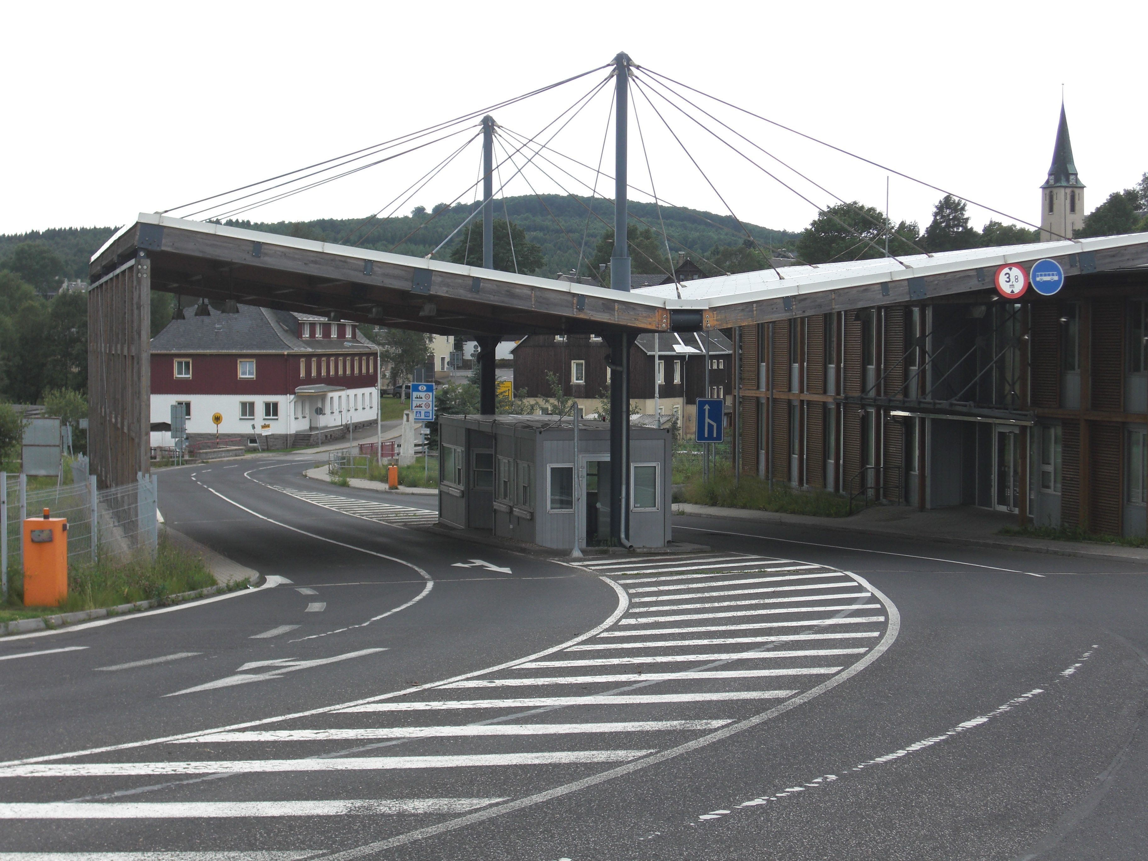 Border crossing